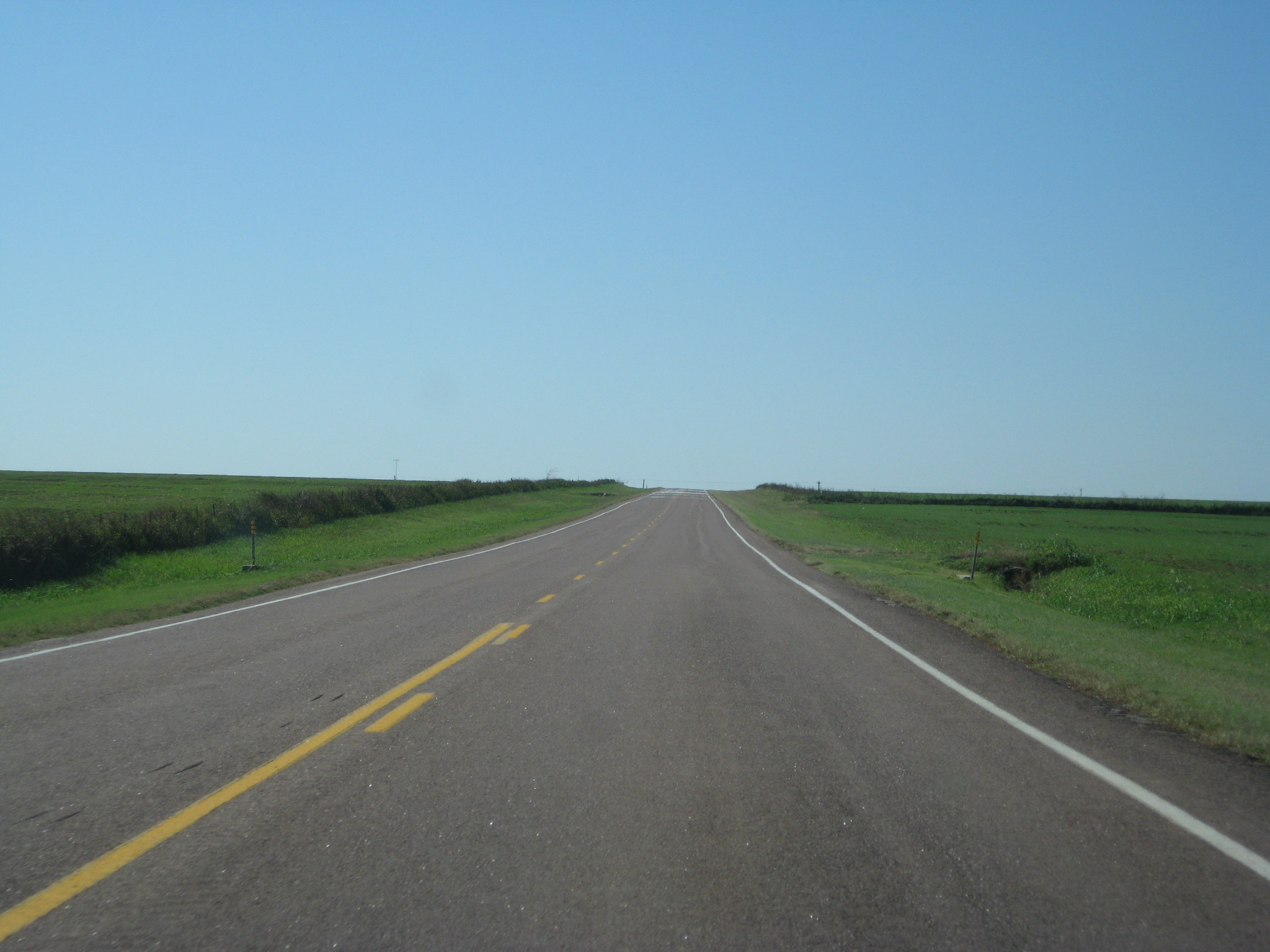 Westbound State Highway 152 in eastern Washita County, Oklahoma.